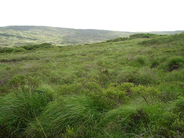 Caher-mountain Glanroon Townland. Very rough hillside and bog running up to the 317 m summit of Caher-mountain.